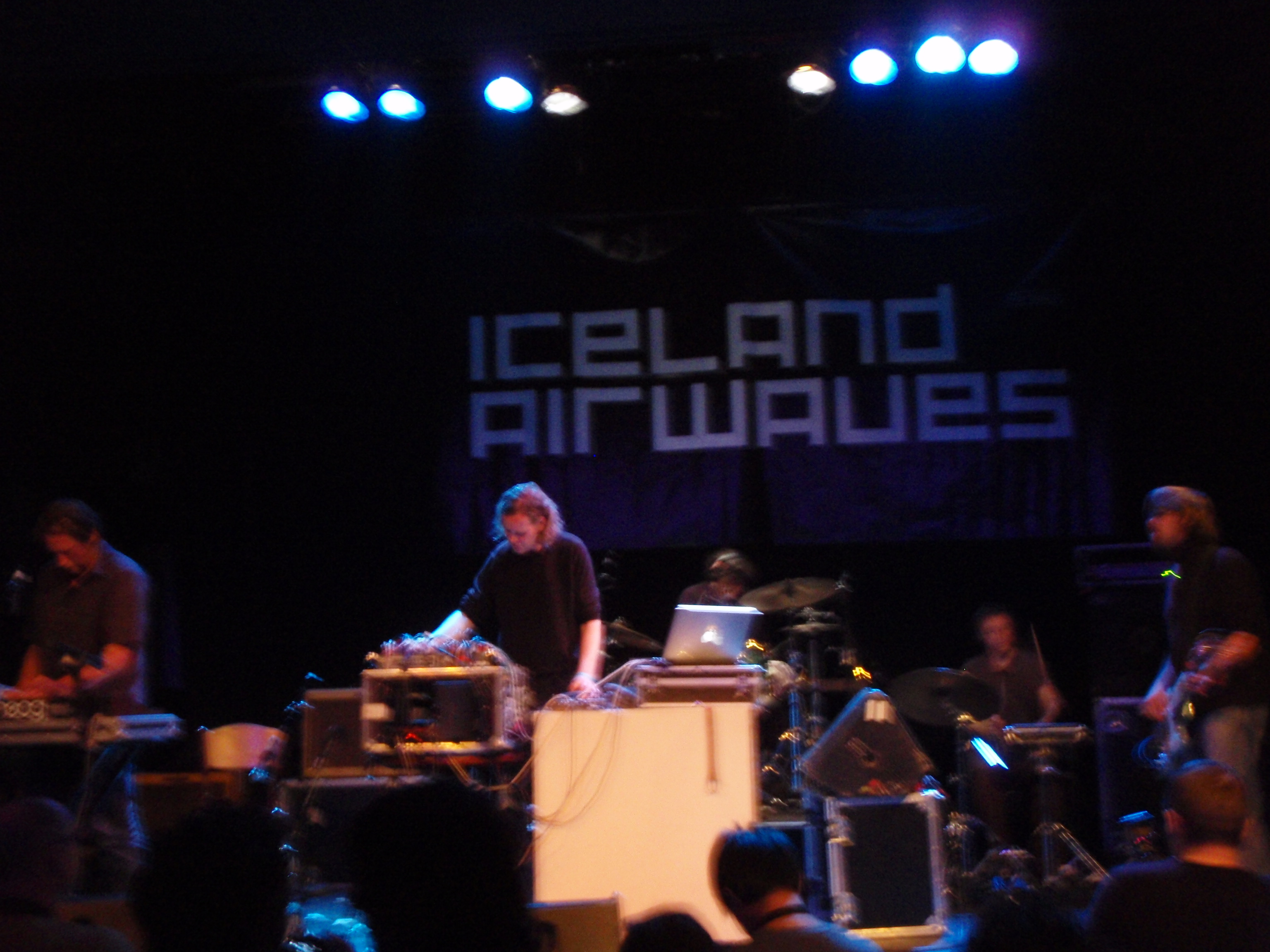 Tied & Tickled Trio at Iceland Awards